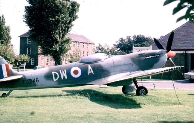 Supermarine Spitfire LF16 serial number TD248 on display at RAF Sealand